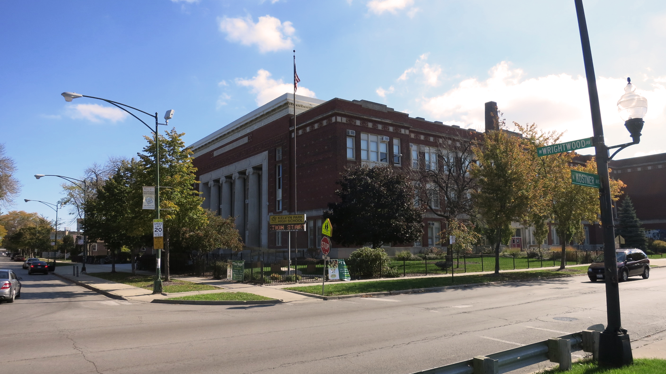 Kelvyn Park High School is a public 4-year high school located in the Hermosa neighborhood on north-west side of Chicago. The high school is nearly adjacent to Kelvyn Park.